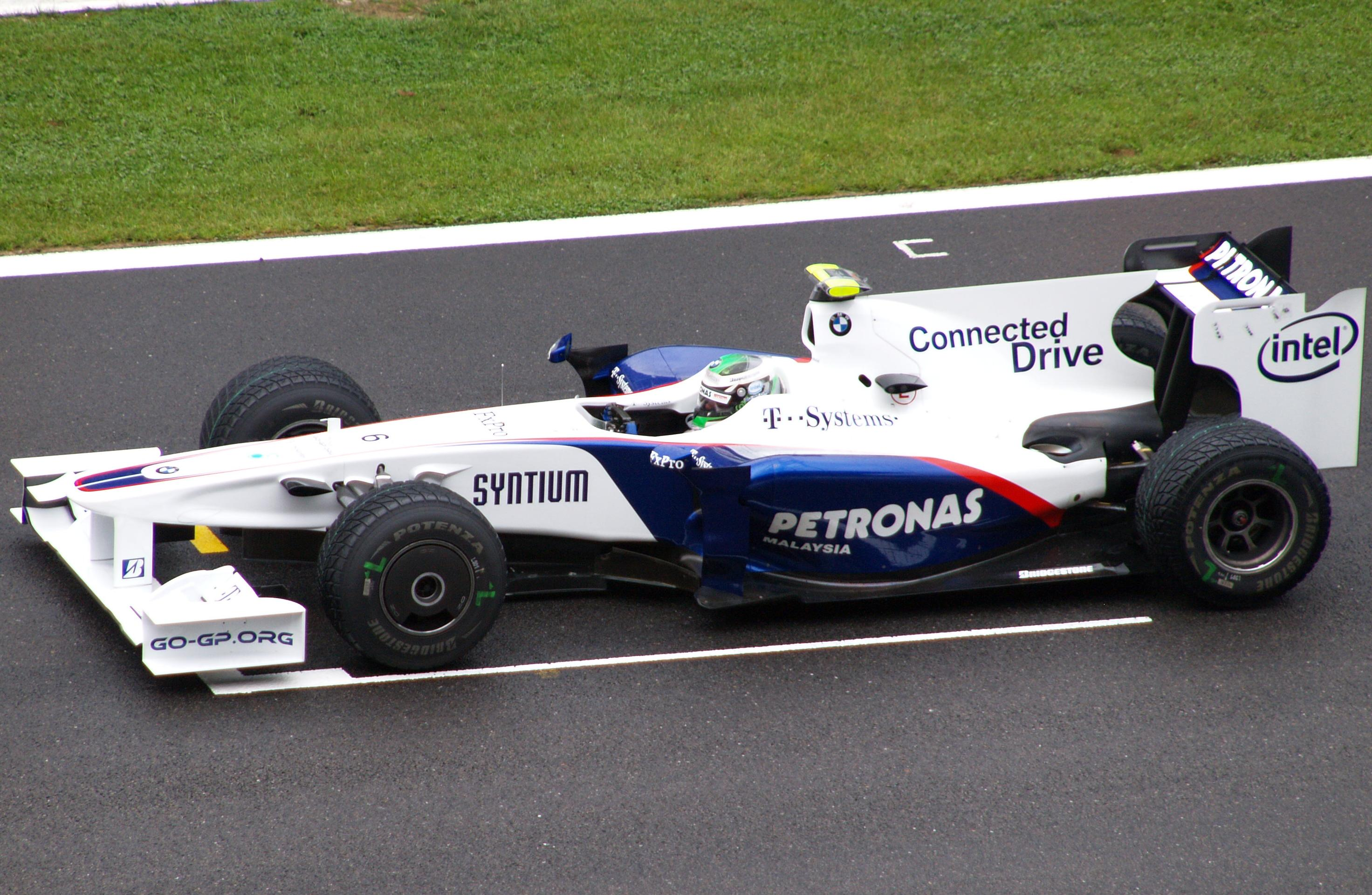 Nick Heidfeld driving for BMW Sauber at the 2009 Belgian Grand Prix.